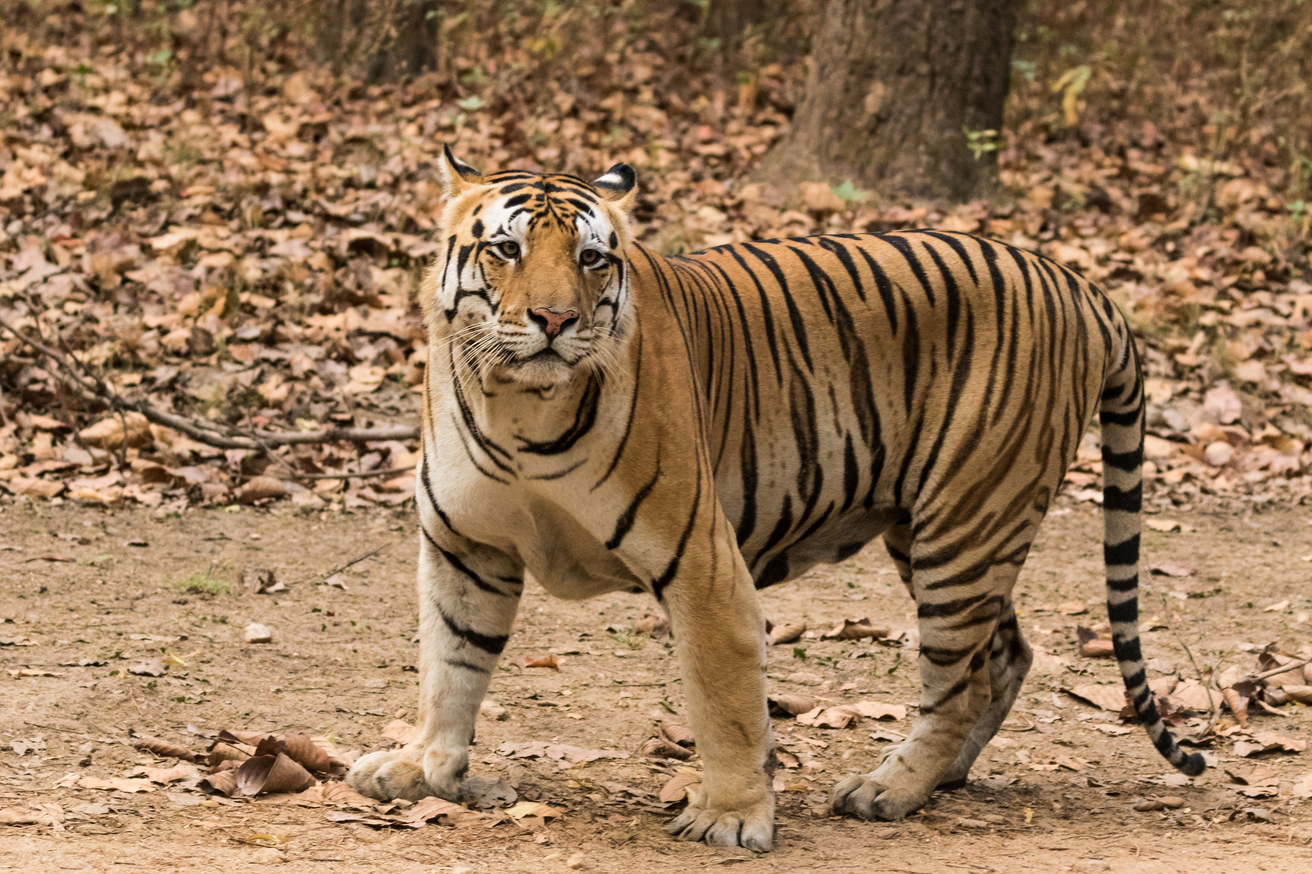 Bheem, The Royal Bengal Tiger at Kanha National Park.